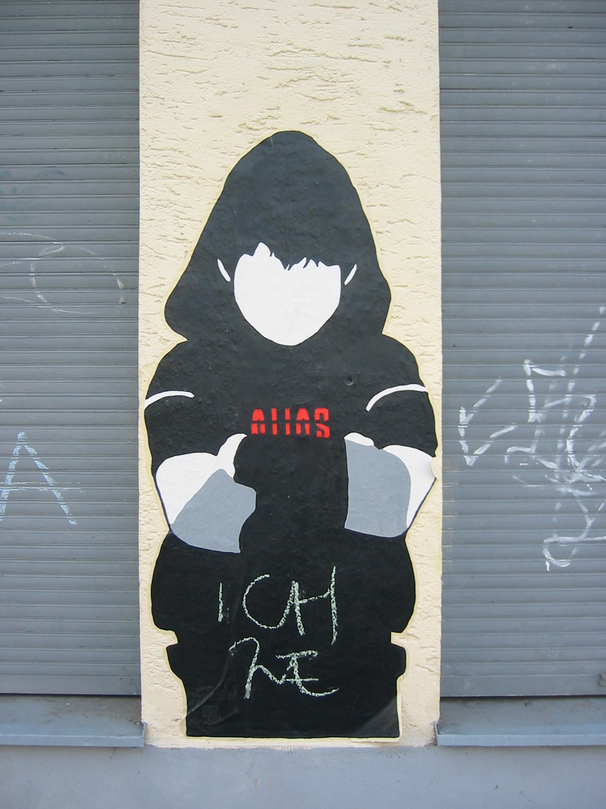 scratching u-bahn berlin recorded by User:Nicor